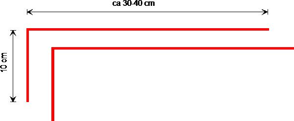 Divining rod, type "L"